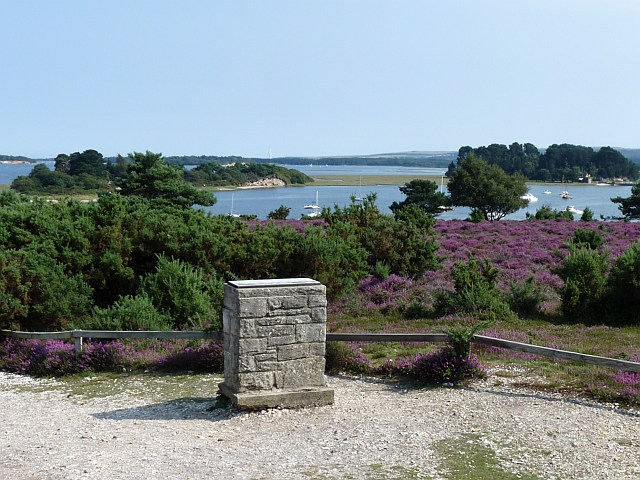 Viewpoint on the RSPB Arne reserve. Looking across Poole Harbour with Round Island on the right and Long Island on the left.